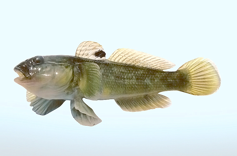 Round goby on a white background